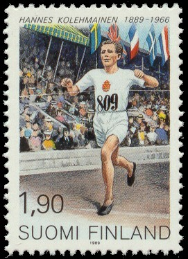 Postage stamp depicting a famous Finnish long-distance runner, Hannes Kolehmainen